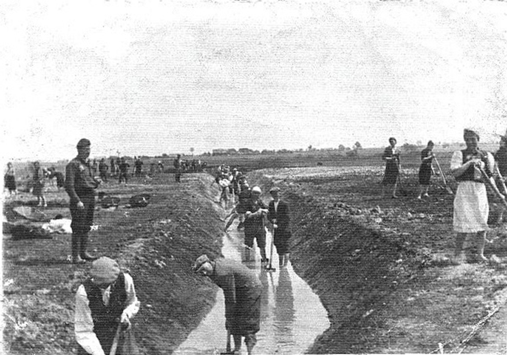 Krychów, the location of a German-Nazi forced labour camp established in 1940. The camp was set up in place of a small correctional facility for short-term offenders founded in 1935 in interwar Poland, which was a branch of the Chełm prison. The new camp there was a main branch of several camps in Gmina Hańsk including Krychów, Osowa, and Ujazdów for the innocuous Jewish captives expelled from the neighbouring settlements. It was managed by the Nazi German administration of the General Plan East prepairing latifundia for the colonists brought in Heim ins Reich (Home into the Empire).